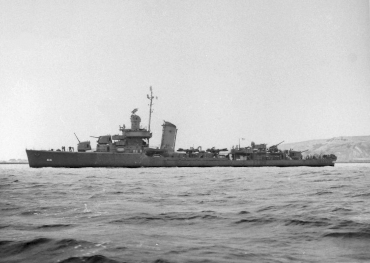 The U.S. Navy Sims-class destroyer USS Russell (DD-414) at the Mare Island Naval Shipyard, California (USA), on 20 July 1943.